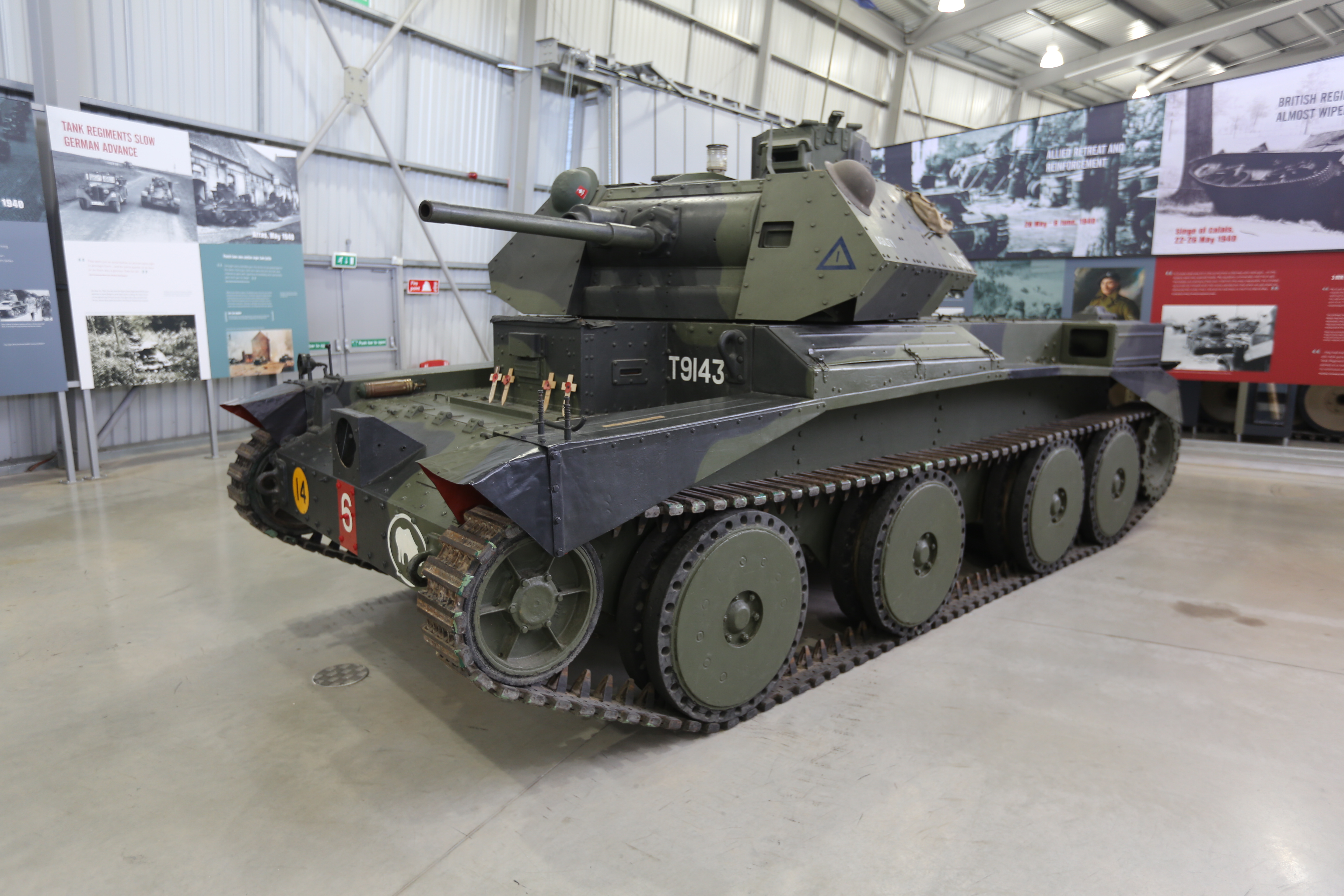 Photo of the Cruiser Mk III in the Bovington Tank Museum